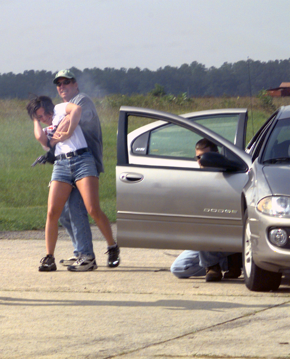 Russian Security Police Force members (not shown) visit McEntire Air National Guard Station, South Carolina, and take part in a hostage situation exercise. The visit was in cooperation with South Carolina State Law Enforcement Division (SLED) officials. Location: MCENTIRE ANG STATION, SOUTH CAROLINA (SC) UNITED STATES OF AMERICA (USA) (Released to Public)